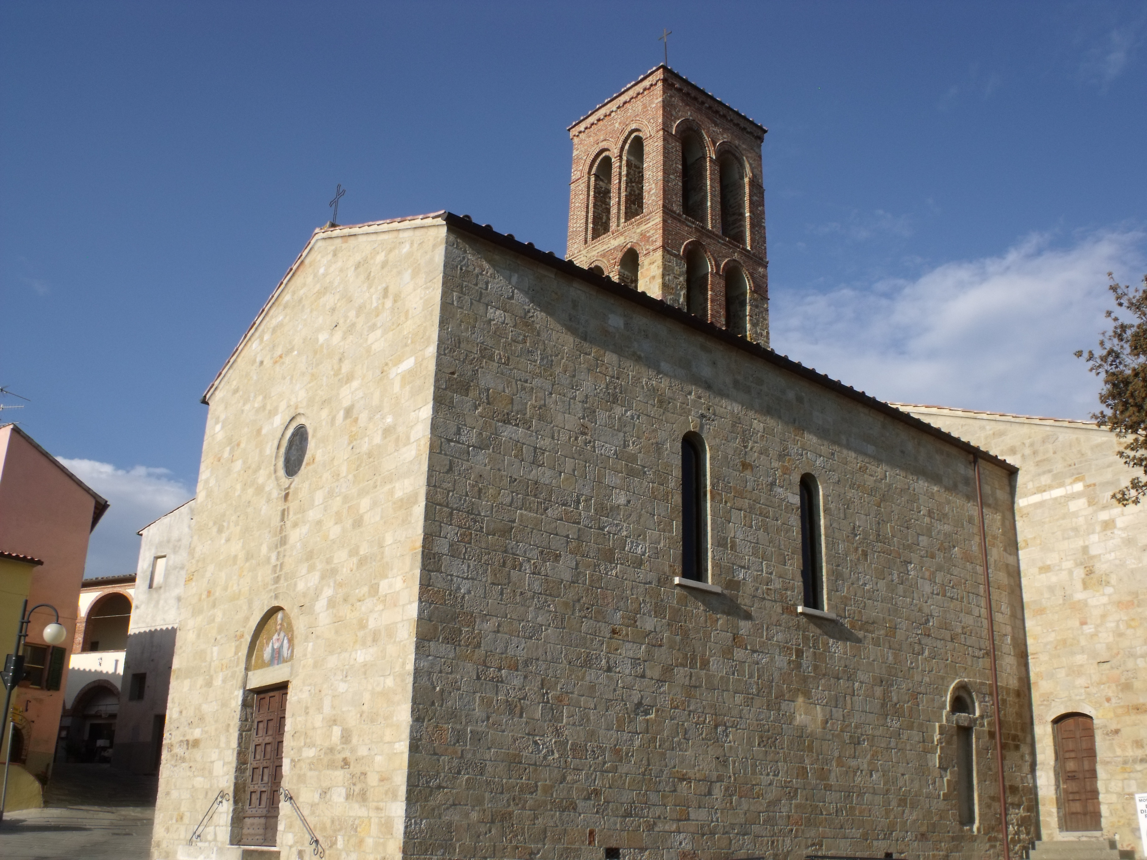 Church Chiesa dei Santi Stefano e Lorenzo in Montepescali, hamlet of Grosseto, Maremma, Province of Grosseto, Tuscany, Italy